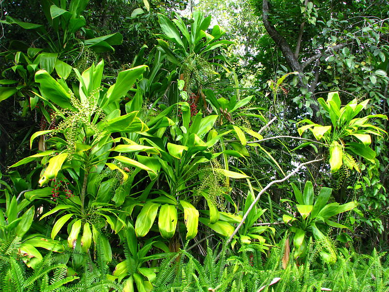 A rambling, tropical looking native Cordyline of north Queensland, very similar to C. fruticosa (syn. C. terminalis).